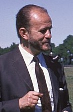 Nandor Wagner sculptor in Sweden